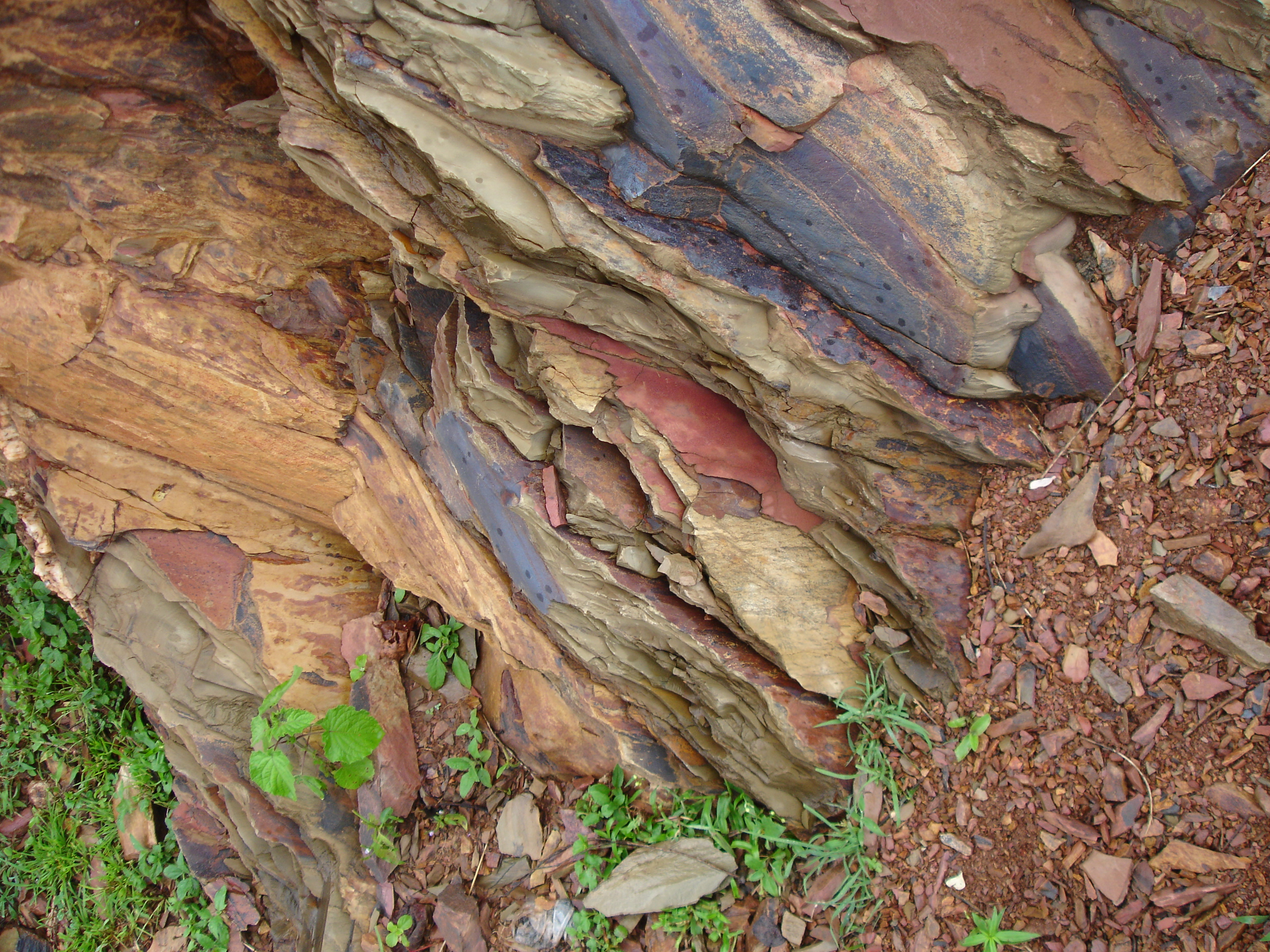 Exposed Rocks of Maikal Hills in Kabirdham District of Chhattisgarh, India.